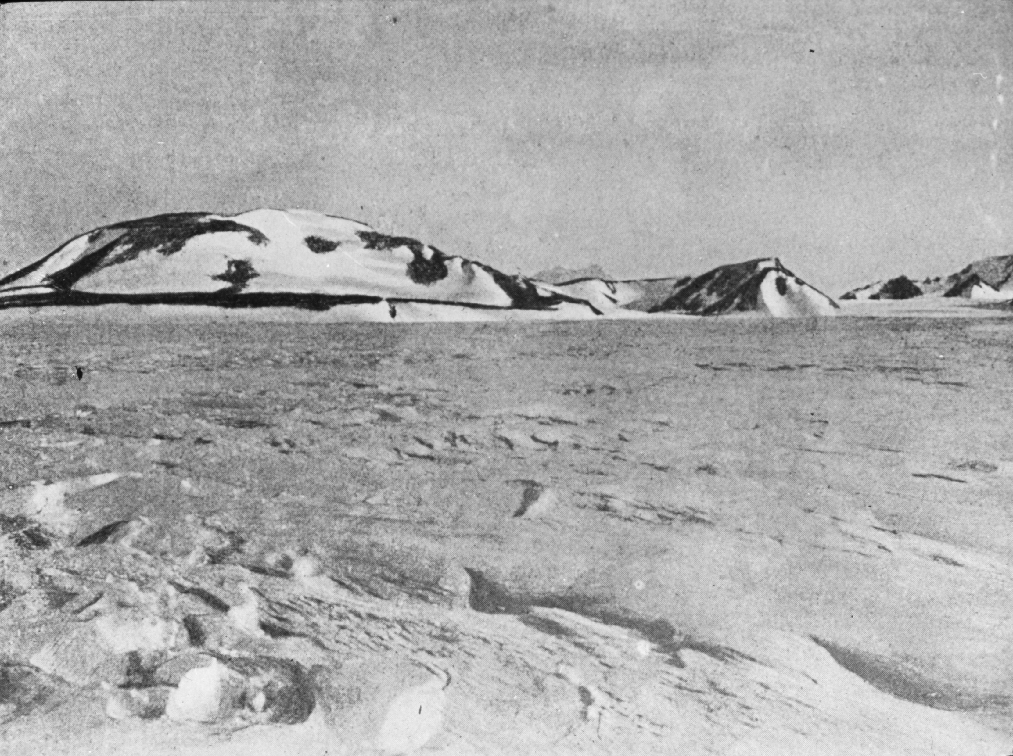 Photographs of the Nimrod Expedition (1907-09) to the Antarctic, led by Ernest Sheckleton